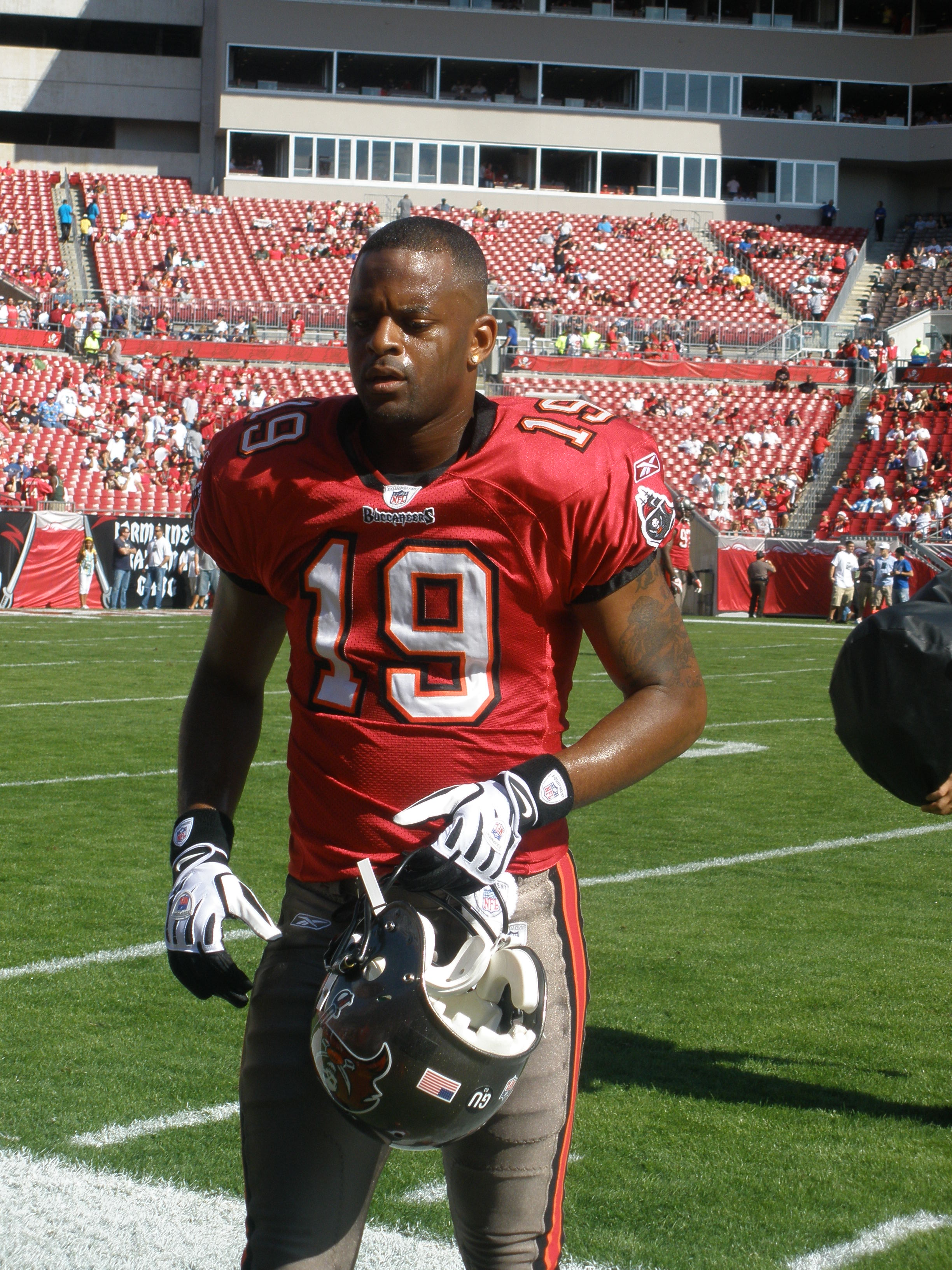 ike hilliard